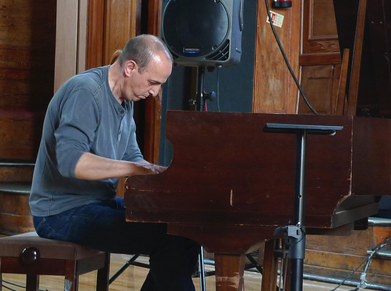 Agustí Fernández (Freedom of the City, London, May 1, 2011, Solo concert)